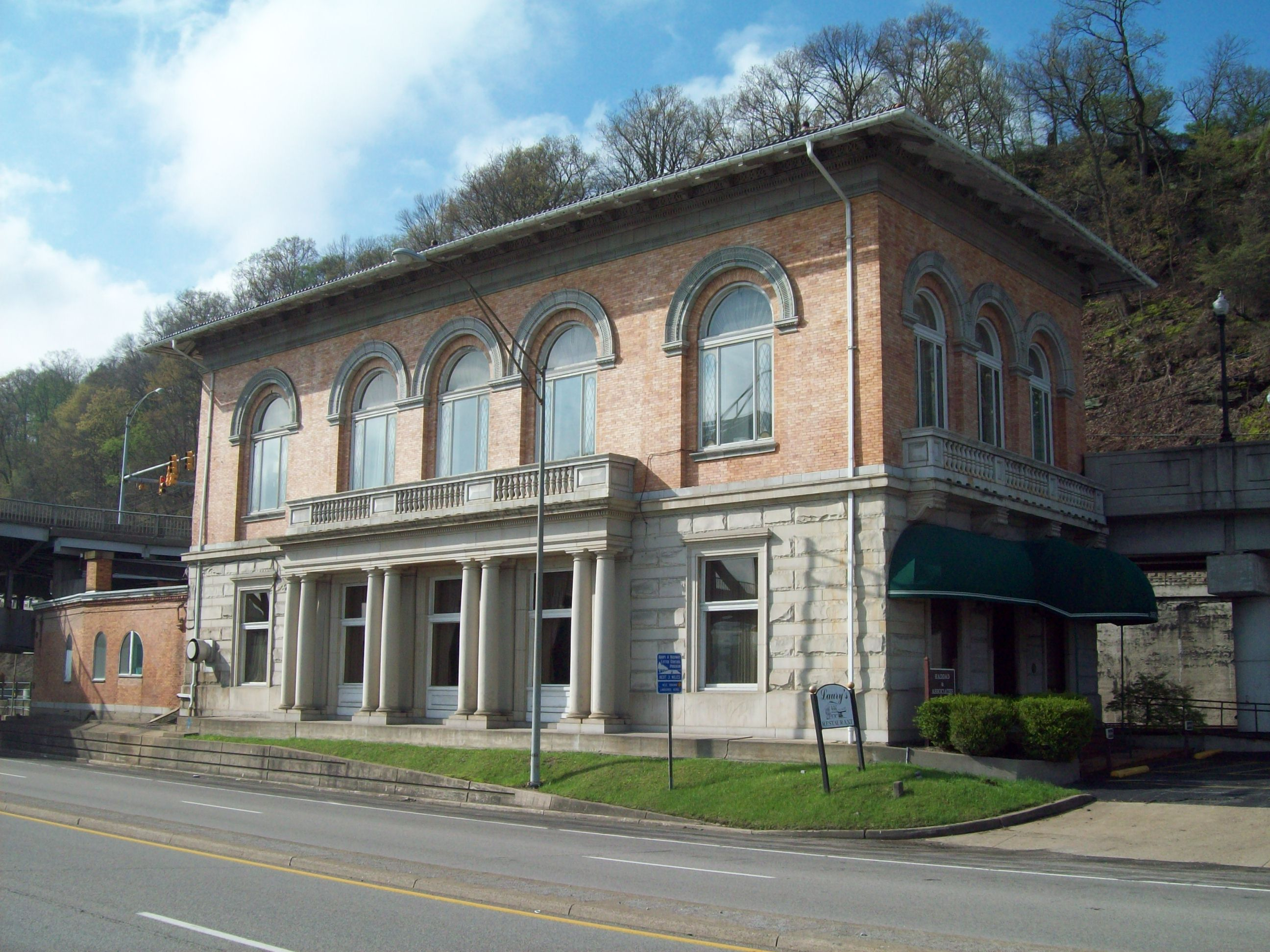 Charleston Amtrak Station, April 09